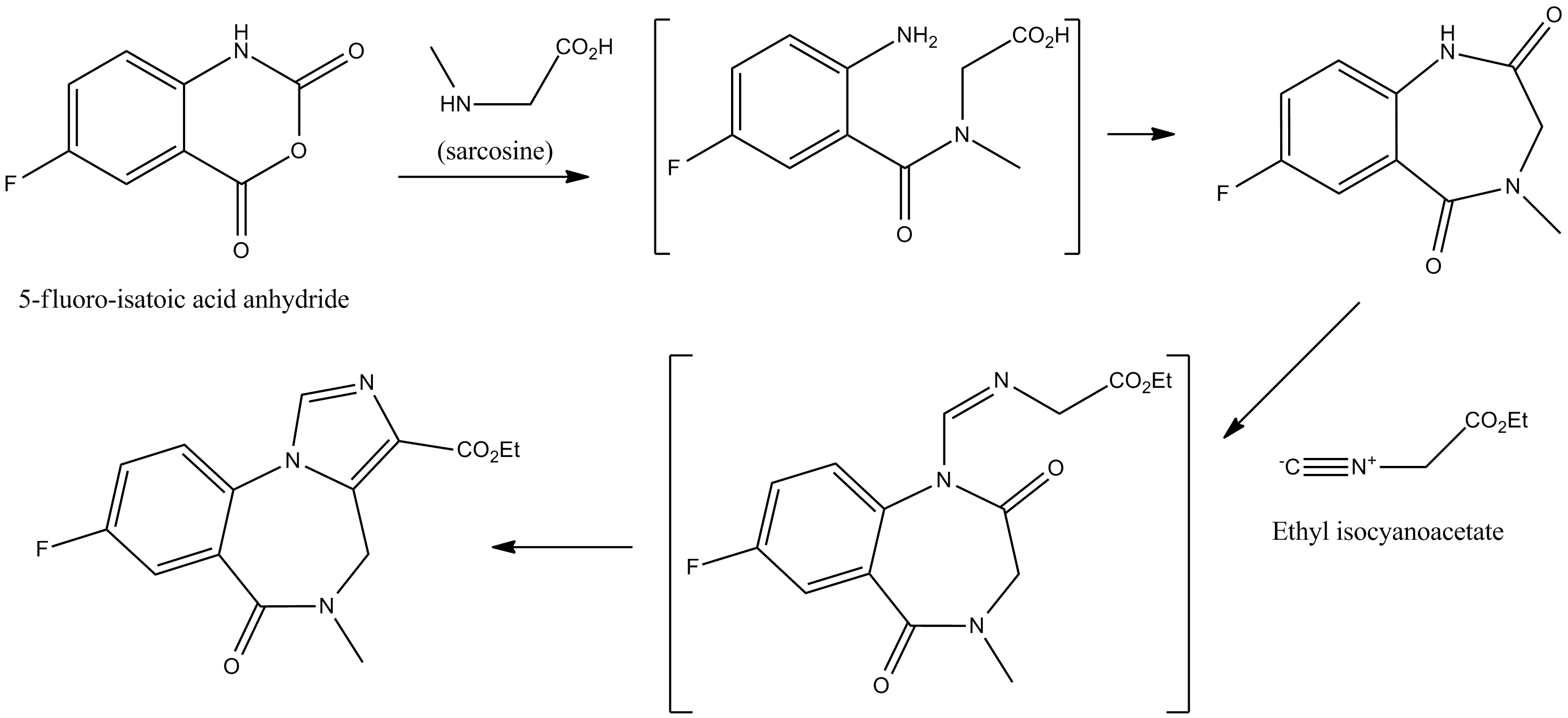 Gerecke, M.; Hunkeler, W.; Kyburz, E.; Mohler, H.; Pieri, L.; Pole, P.; 1982, U.S. Patent 4,316,839.